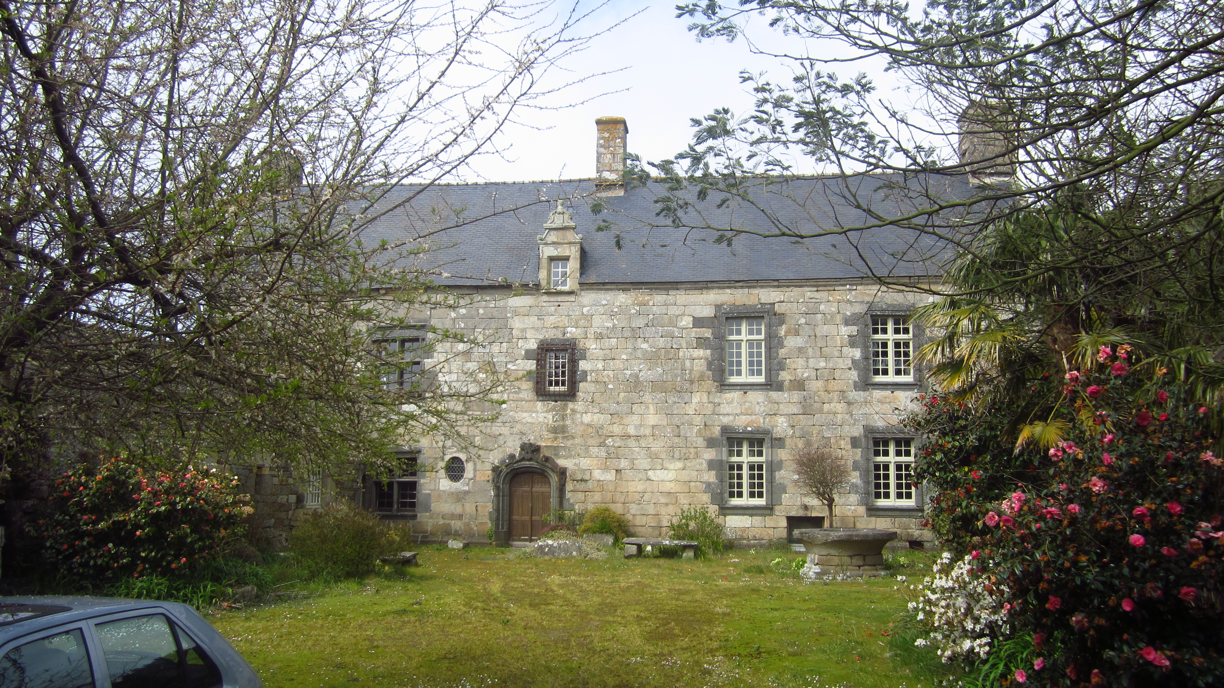 Manor house of Kerscao, Locmaria-Plouzané